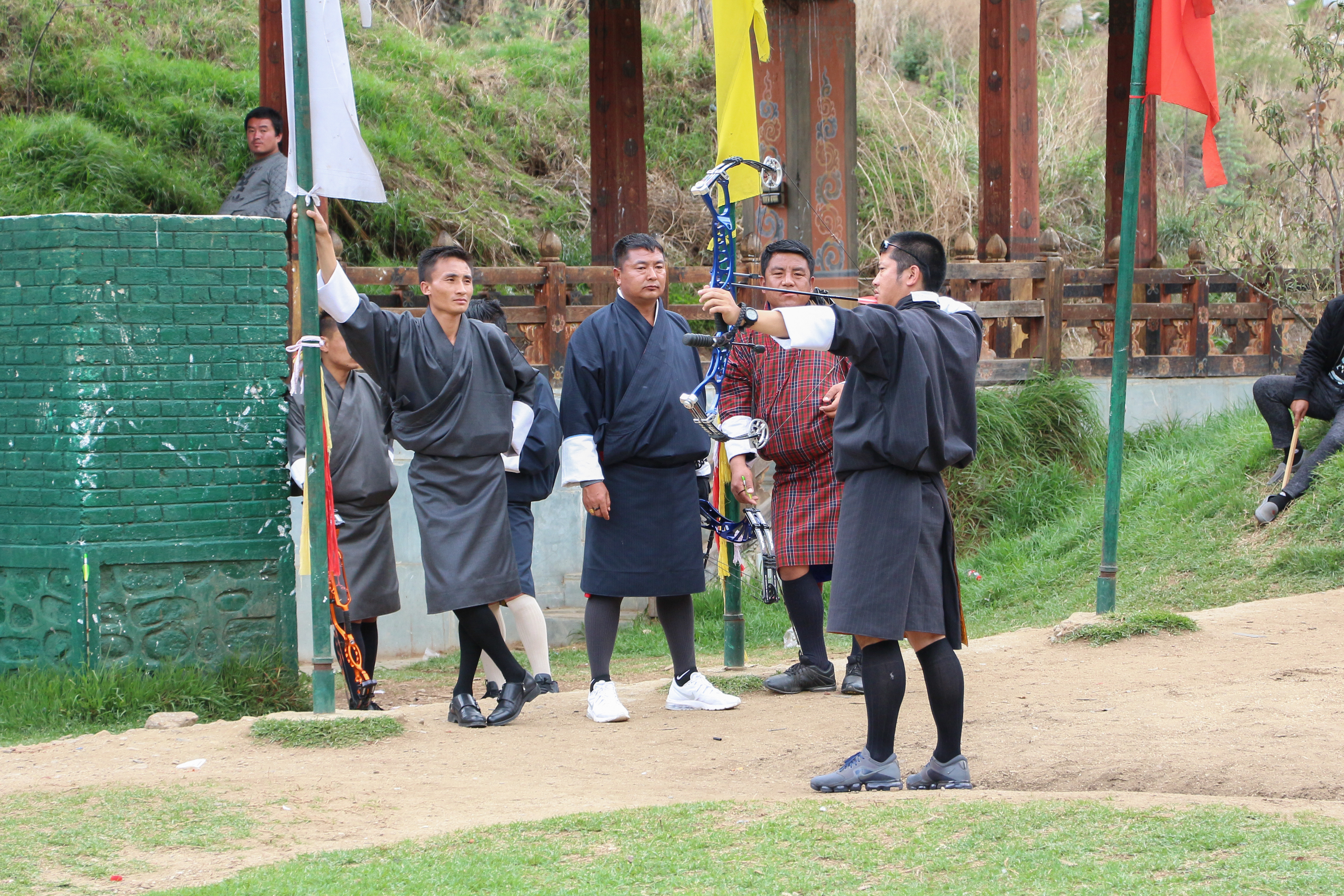 Changlimithang Archery Ground, Thimphu, Bhutan